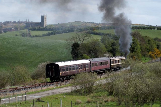 A Passing Steam train